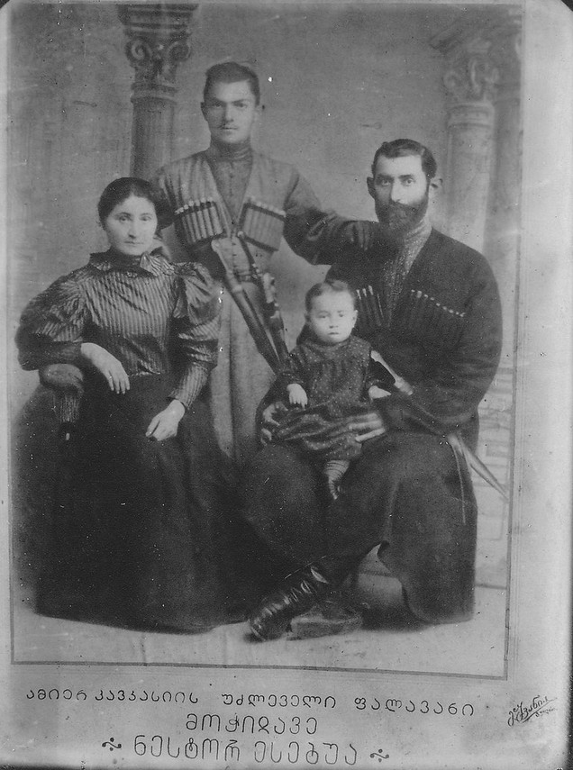 nestor esebua family